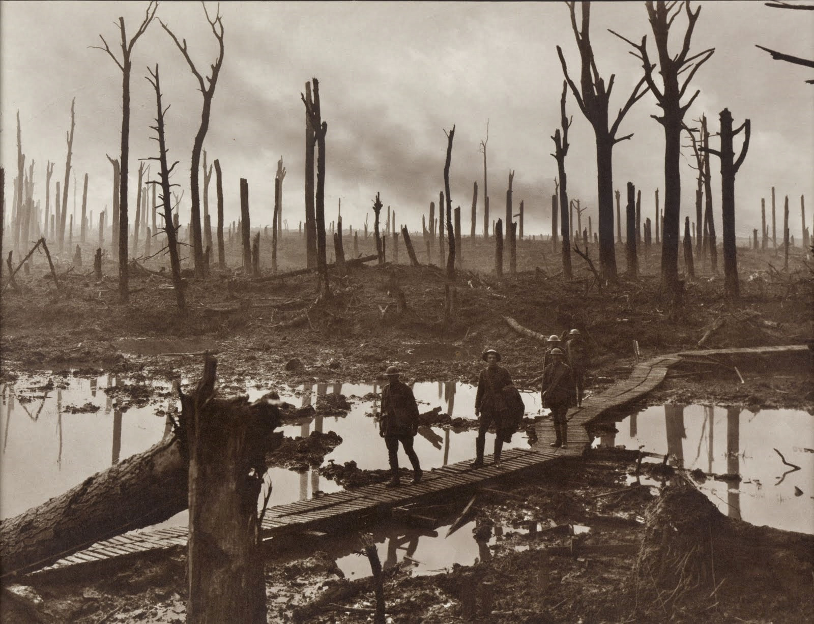 Soldiers of an Australian 4th Division field artillery brigade on a duckboard track passing through Chateau Wood, near Hooge in the Ypres salient, 29 October 1917. The leading soldier is Gunner James Fulton and the second soldier is Lieutenant Anthony Devine. The men belong to a battery of the 10th Field Artillery Brigade. Australian War Memorial collection number E01220.